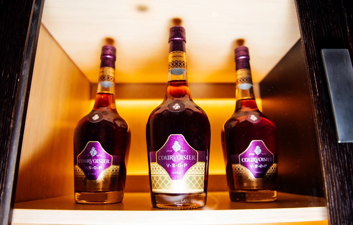 Bottles of cognac Courvoisier VSOP